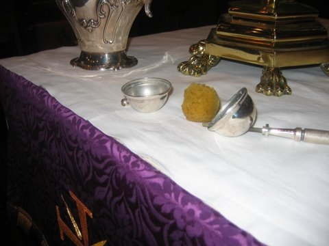 This is a photograph of an aspergilium from the Episcopal Cathedral Church of Saint Matthew, Dallas, Texas. The top has been removed to show the small sponge that is inside the aspergilium. Water is poured into a Pitcher (container), then blessed. The aspergilium is dipped into the ewer, and then the bishop uses the aspergilium to bless something with holy water. This is my photograph that I took and you are welcome to it. Sarum blue 20:20, 23 April 2007 (UTC)